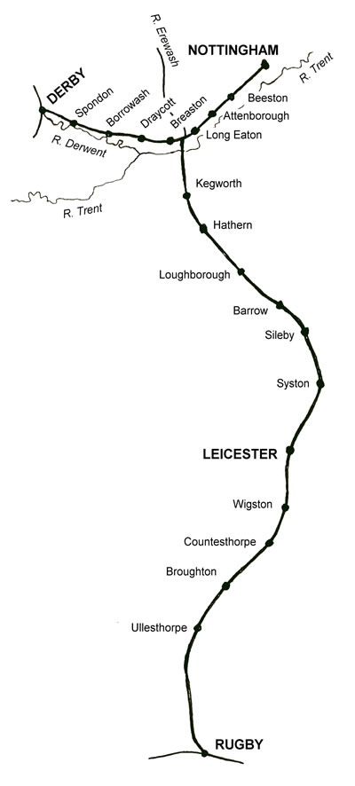 Sketch map of the Midland Counties Railway